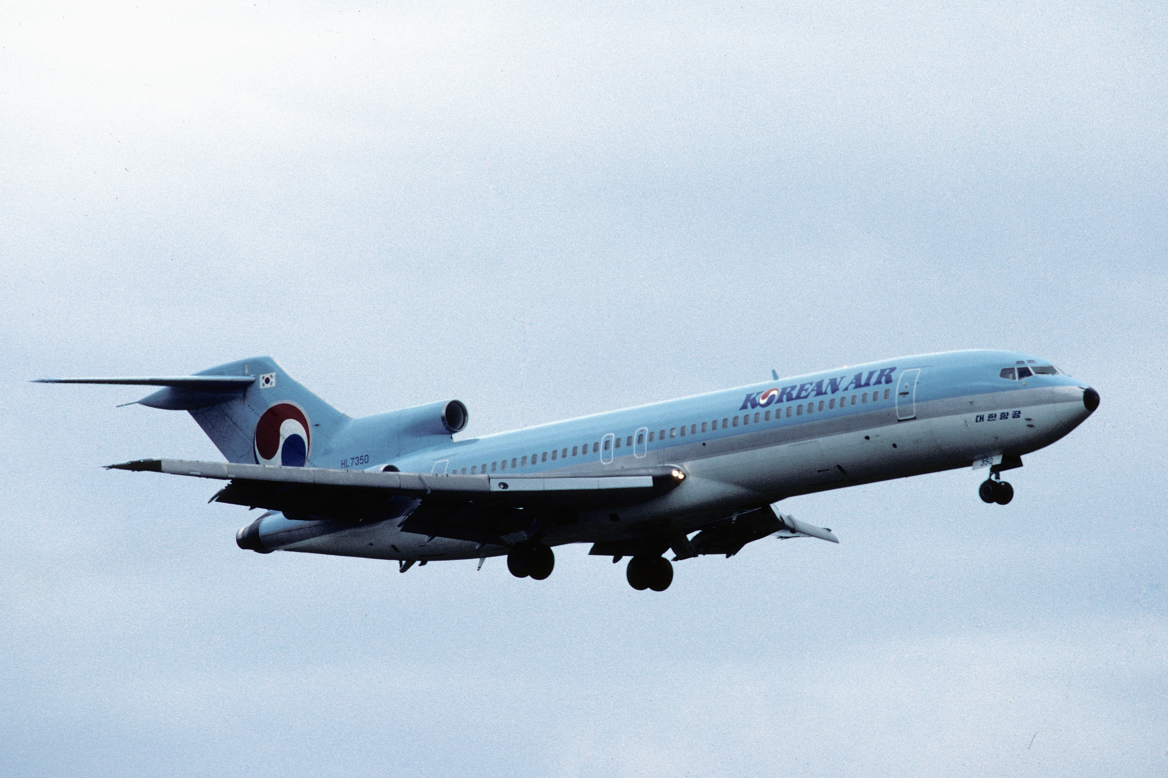 old pictures